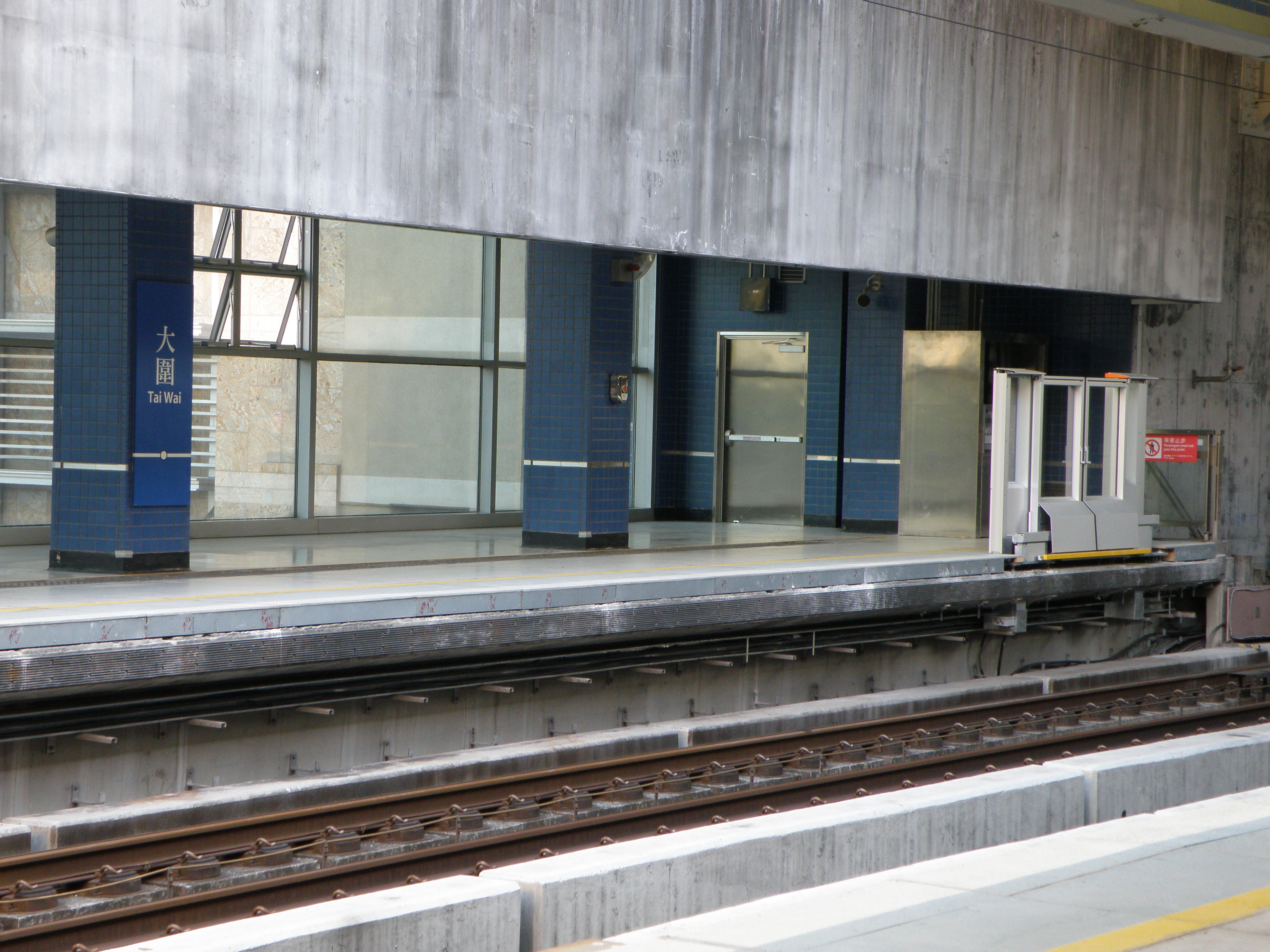 Tai Wai Station in Tai Wai, Hong Kong.